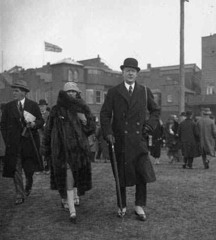 Hugh Richard Arthur Grosvenor, Duke of Westminster and Coco Chanel at the Grand National, Aintree. With them, Galloper Smith, Earl of Birkenhead